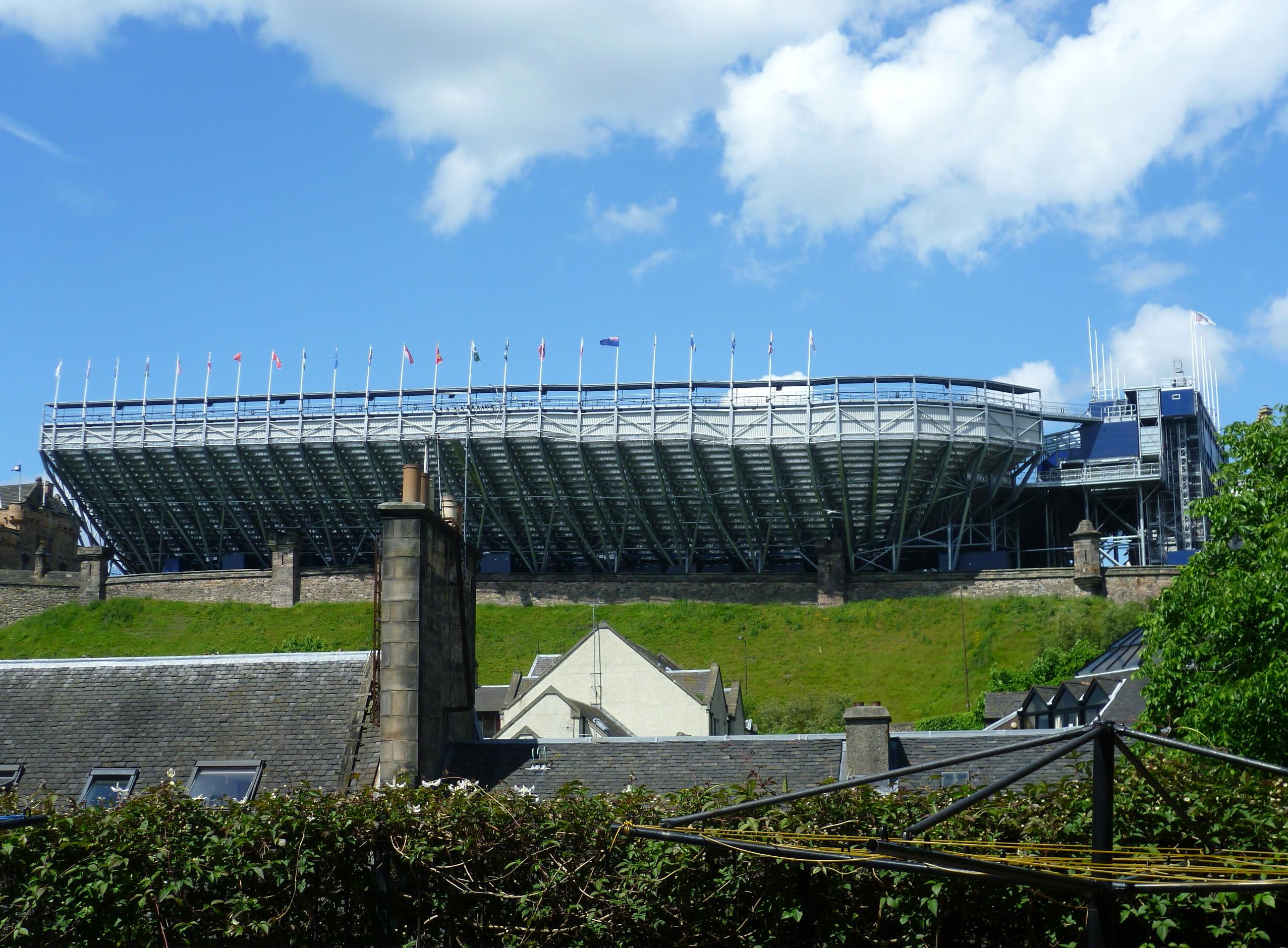 Stands in place for the Edinburgh Military Tattoo of 2012, as seen from the Grassmarket.